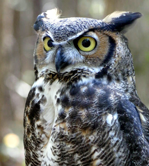 Common Name, Bubo_virginianus, captive (rehabilitated) bird. Location: Chatham County, North Carolina, United States